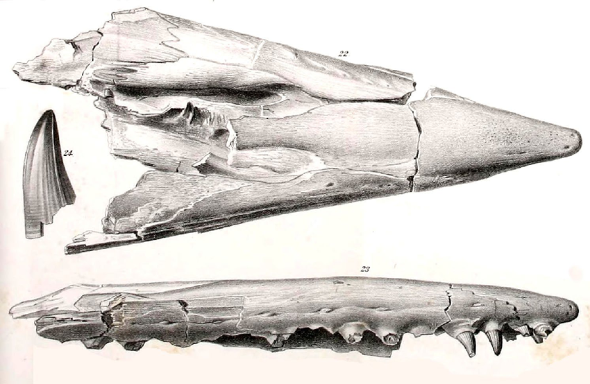 Drawing of the skull of MCZ 4374, the holotype of Macrosaurus proriger (Tylosaurus proriger) from Cope (1870)